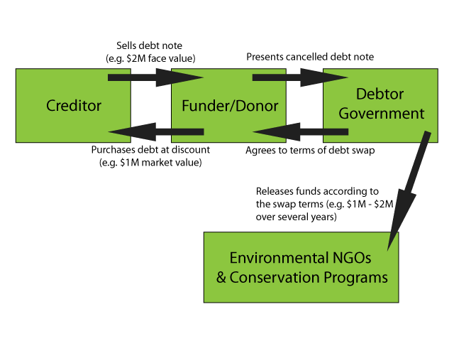 Process diagram of a debt-for-nature swap